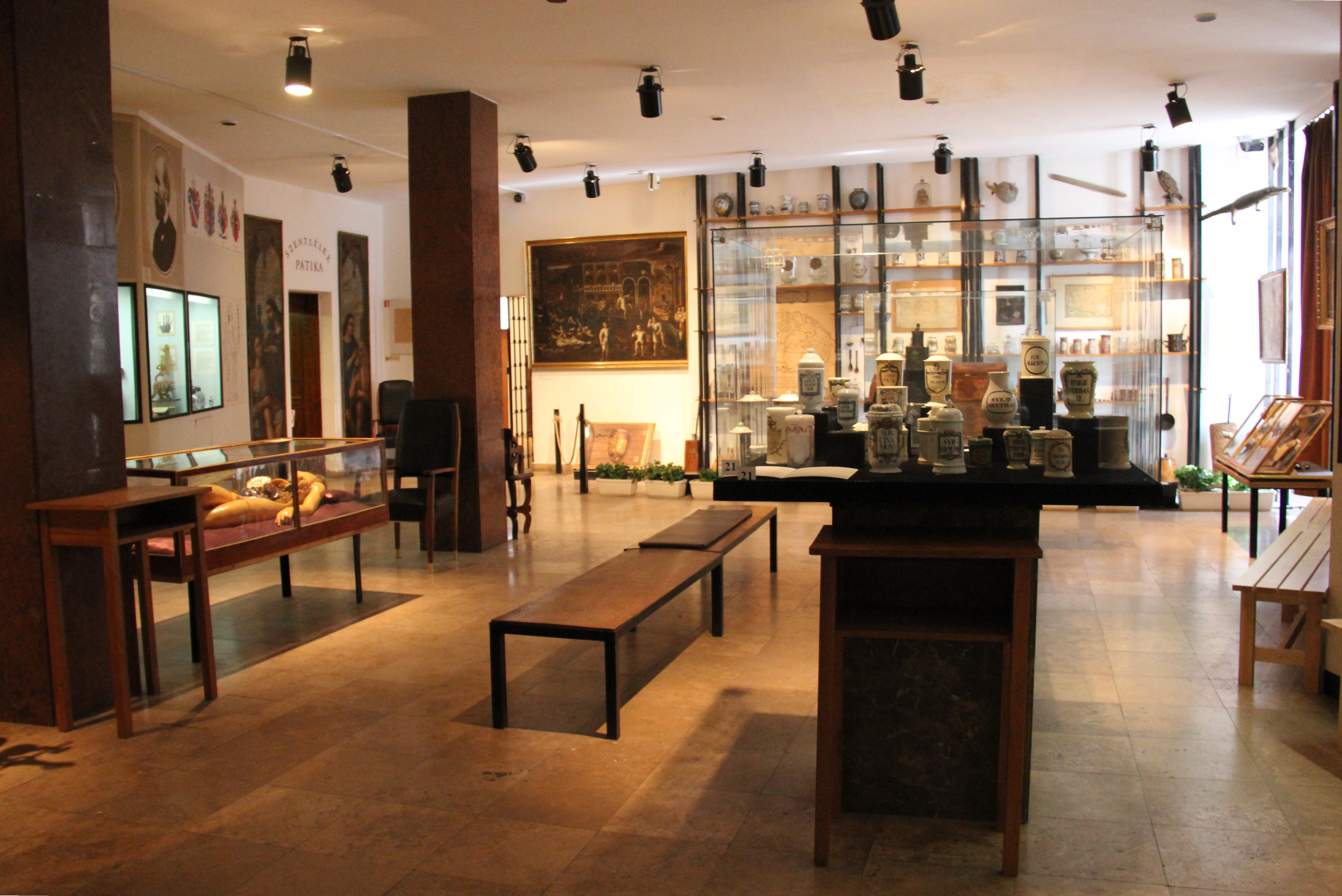 Permanent exhibition of the Semmelweis Museum of Medical History - 1-3. Apród utca, District I., Budapest, Hungary.